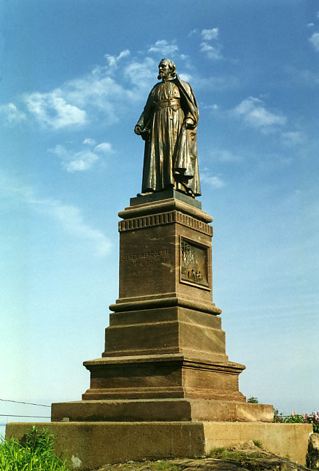 photo by Einar Einarsson Kvaran aka Carptrash 19:42, 12 October 2006 (UTC) . Pere Marquette statue by Gaetano Trentanove, located in Marquette